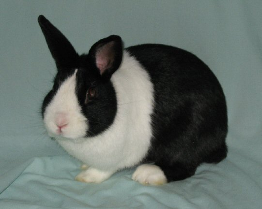 American Grand Champion Dutch rabbit showing correct marking pattern